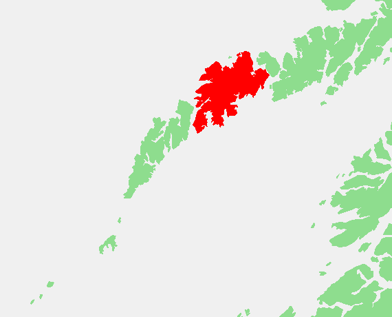 Island of Norway - Vestvagoy.PNG